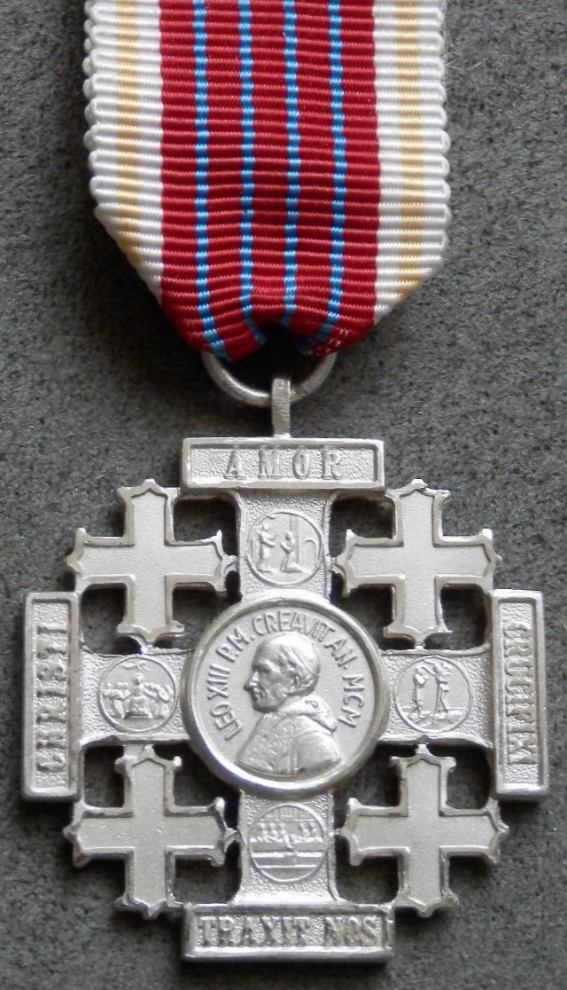 Jerusalem Pilgrim's Cross in Silver